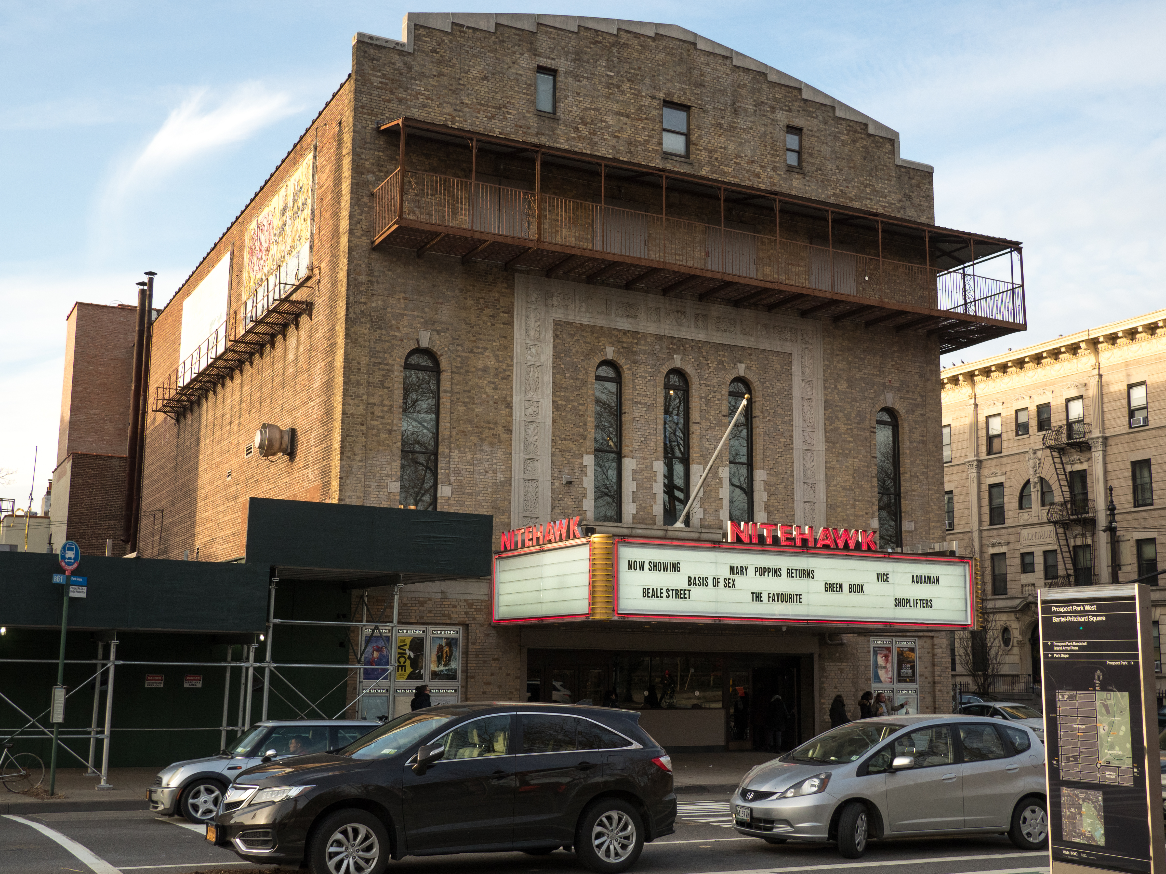 Nitehawk Theater near Prospect Park, Brooklyn